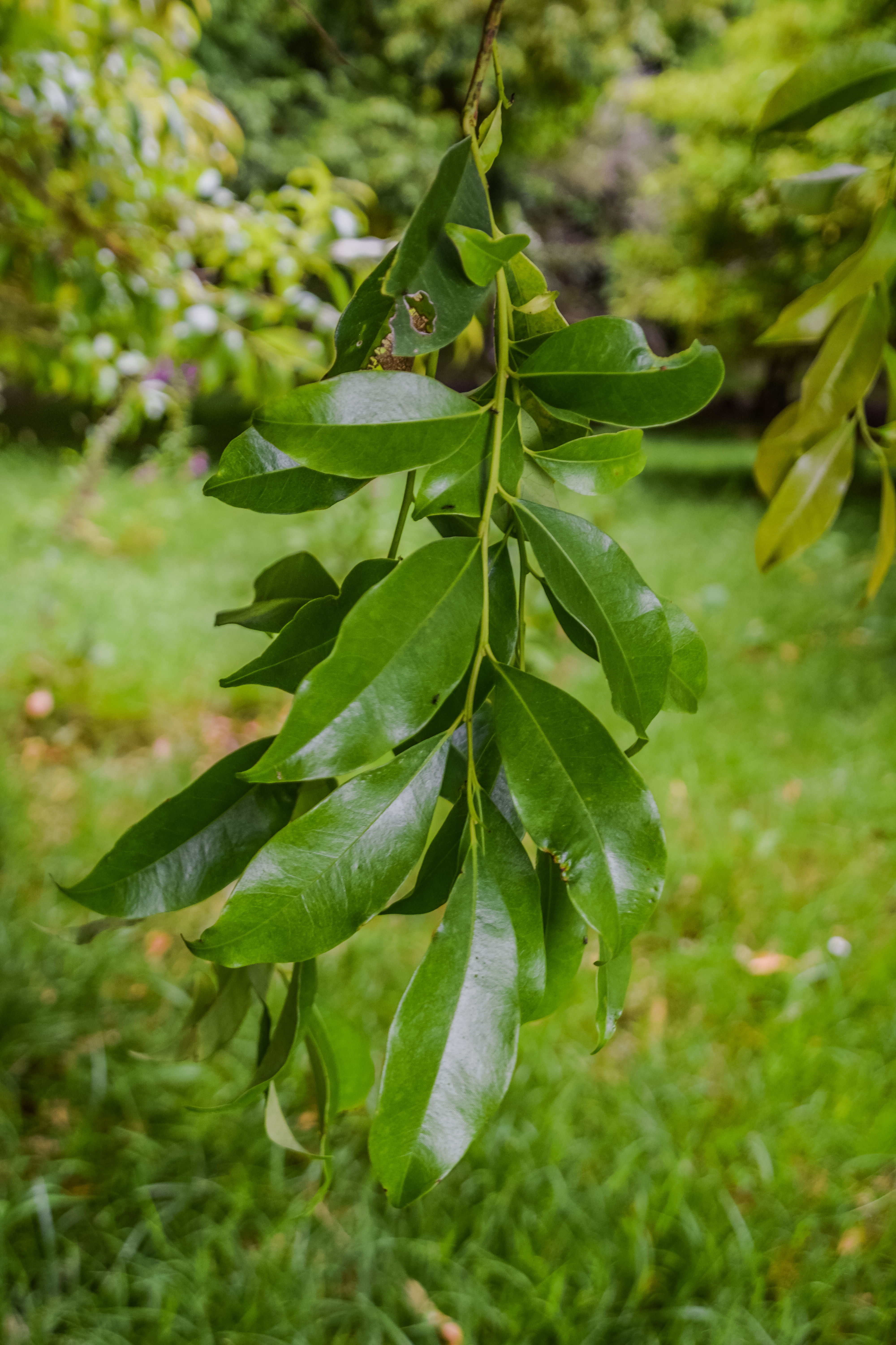 Craibiodendron yunnanense in Hackfalls Arboretum, Gisborne Region, New Zealand